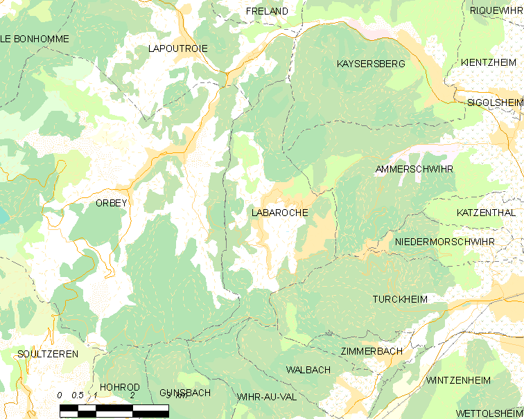 Map of French municipality